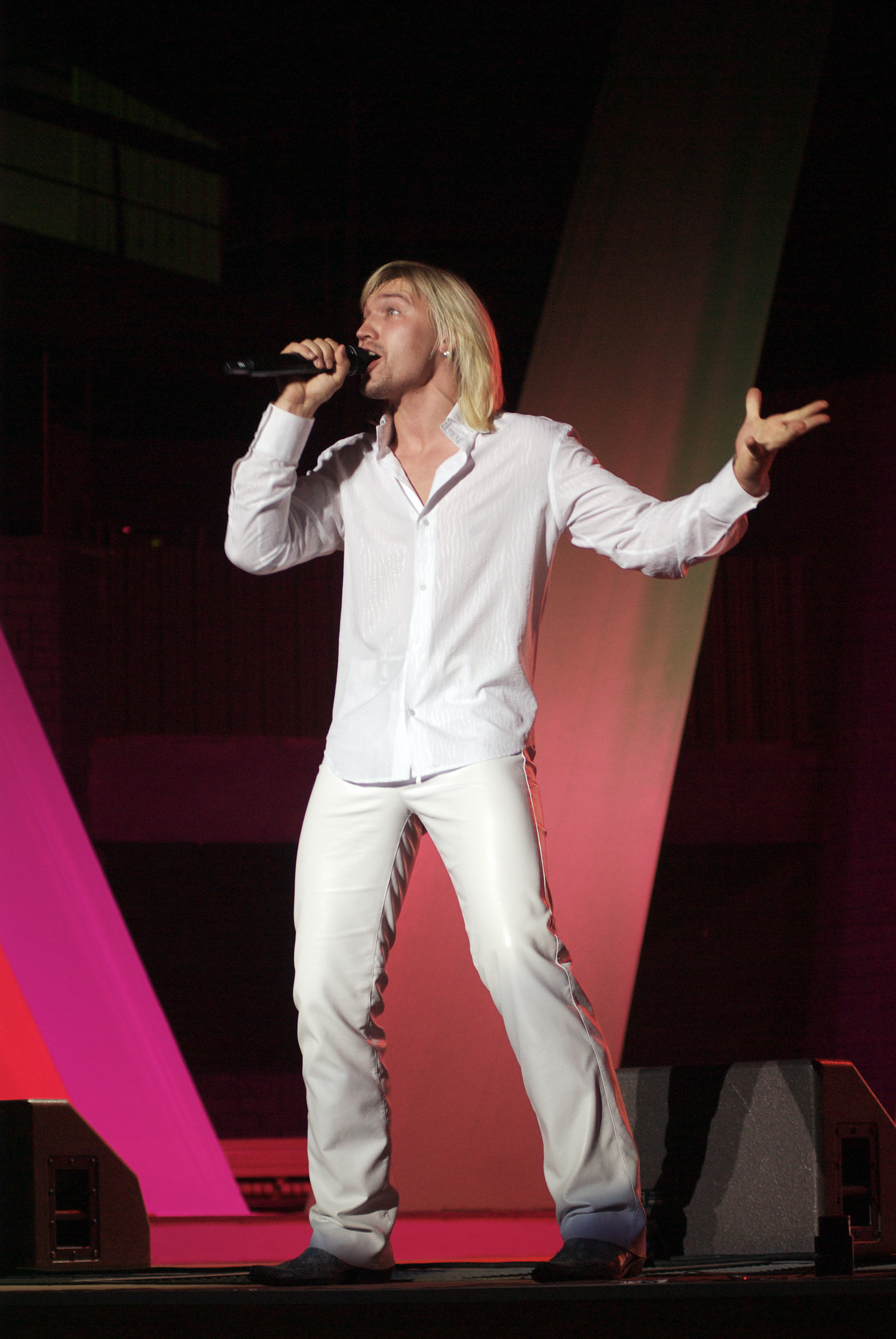 Piotr Elfimov